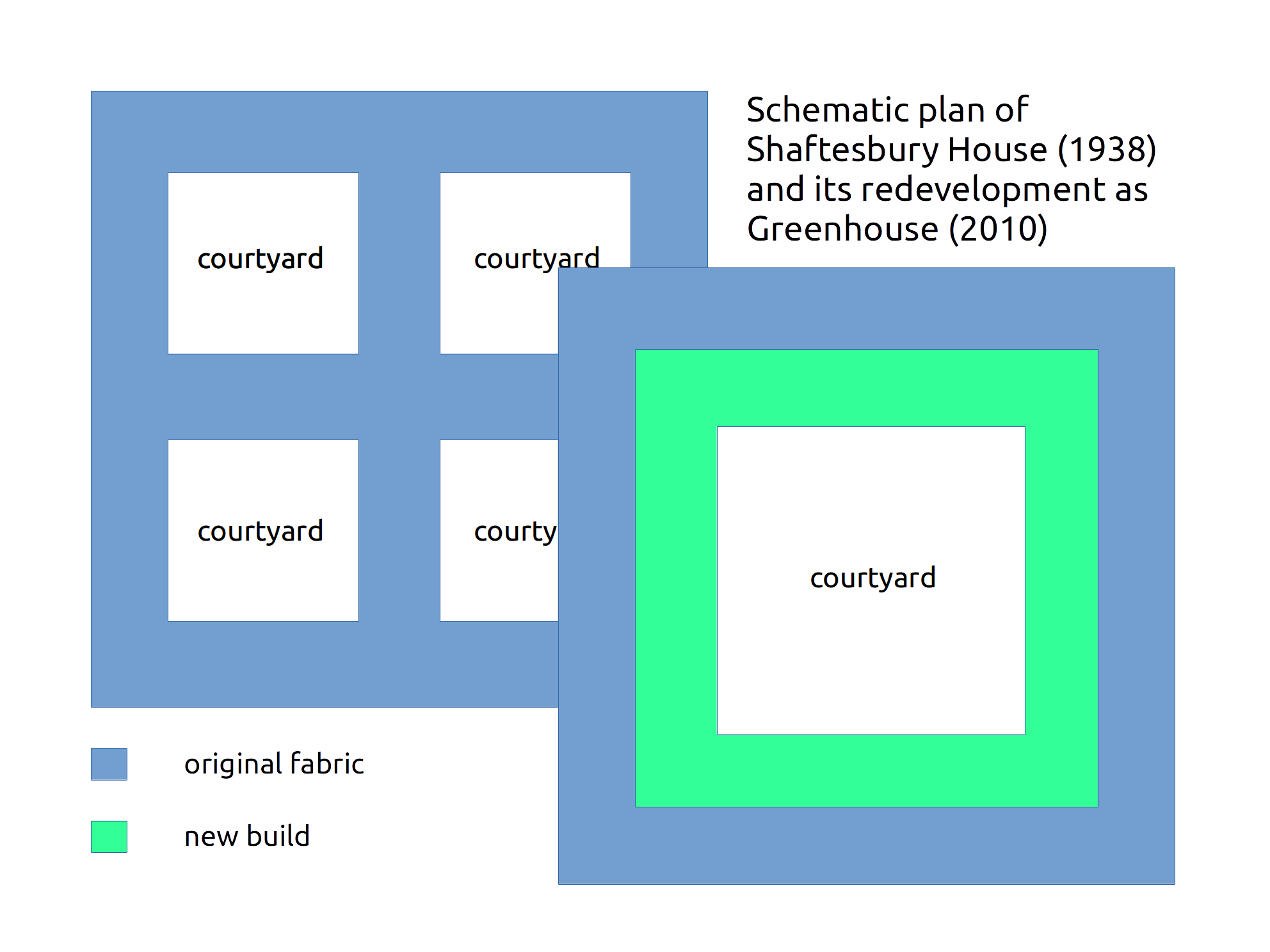 Plan of Shaftesbury House (1938) compared with its redeveloped form, Greenhouse (2010), showing demolition of the inner wings and new inner ring.